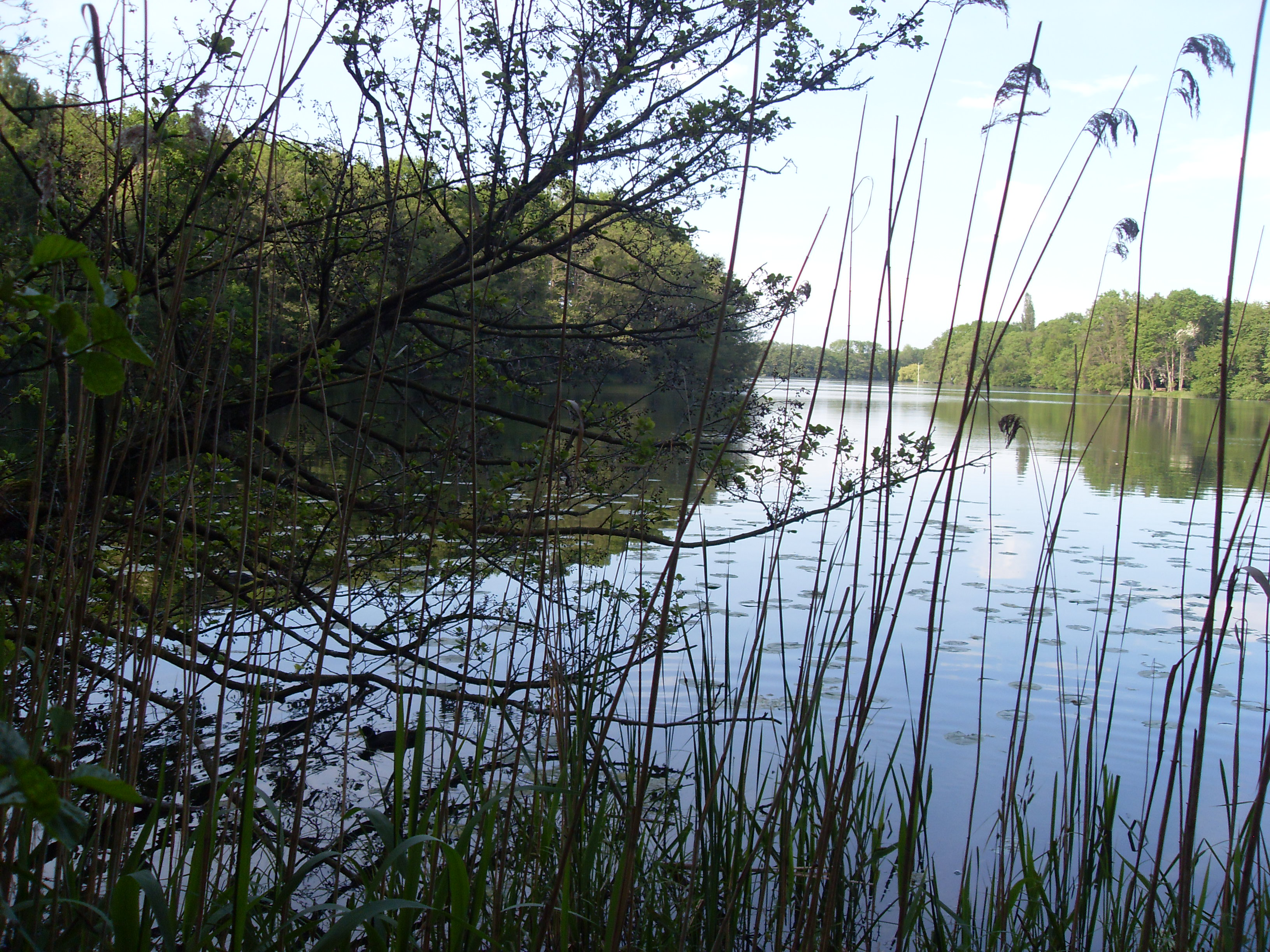 Suhrer See close to Plön in the nature reserve "Suhrer See und Umgebung" in Schleswig-Holstein view from south